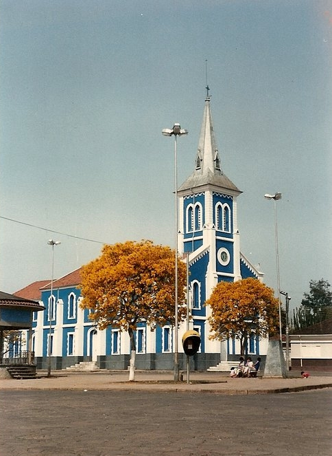 Picture of a church in Brazil